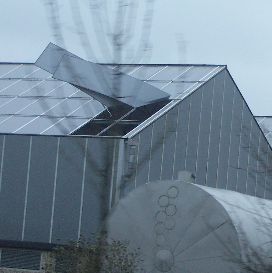 Storm in the Netherlands (18 jan 07)